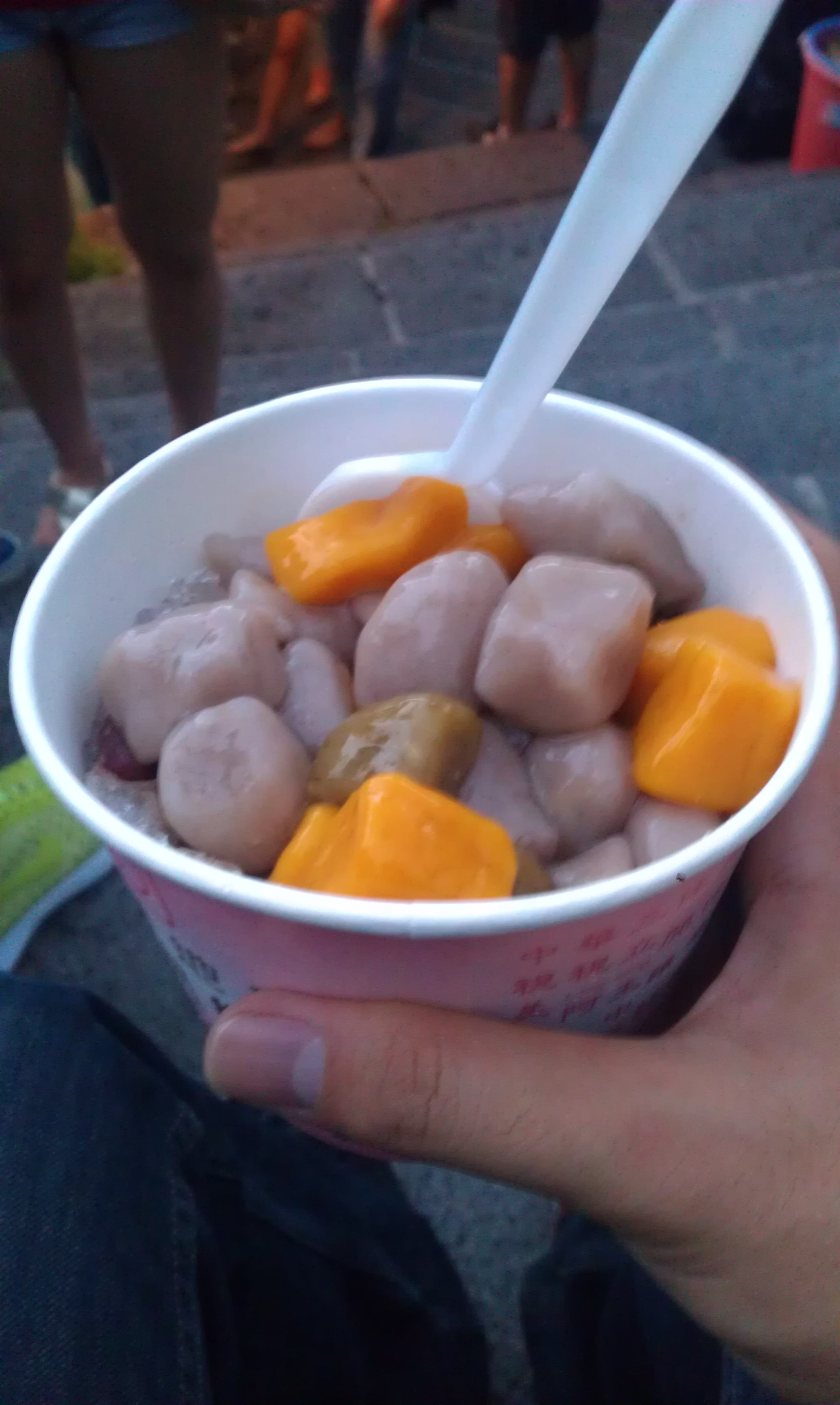 Taro Balls 芋圓 at Jiufen, New Taipei City, Taiwan (九份,新北市,台灣)